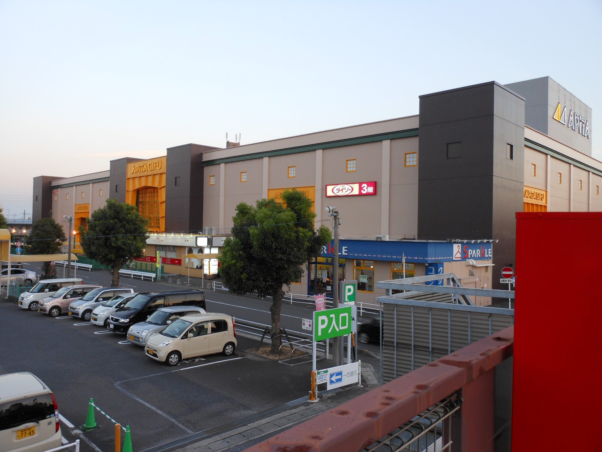 APITA Gifu store in Gifu, Gifu